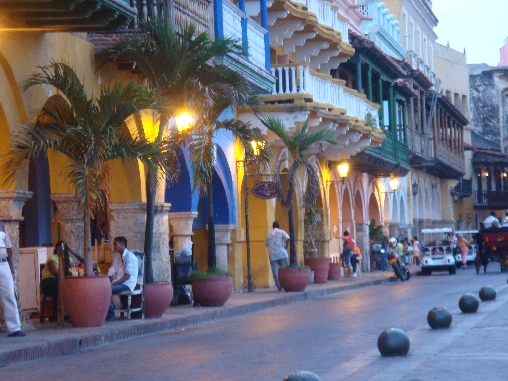 Cartagena, Colombia by user (WT-shared) Sylx100 16:49, 22 May 2009 (EDT).